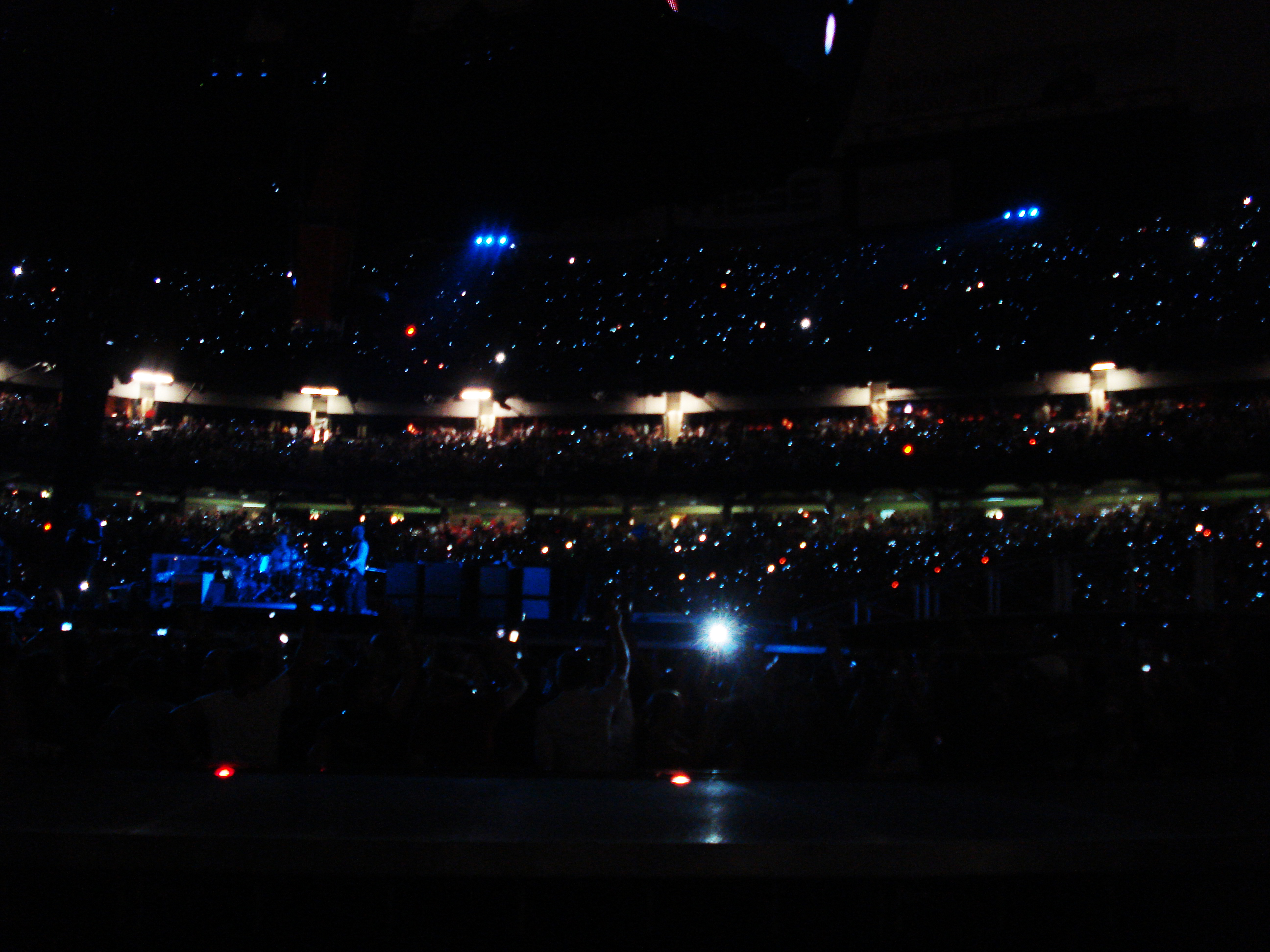 U2 performs "Moment of Surrender" at Giants Stadium in East Rutherford, NJ on September 23, 2009. The house/stage lights were dimmed and Bono urged fans to take out their mobile phones.